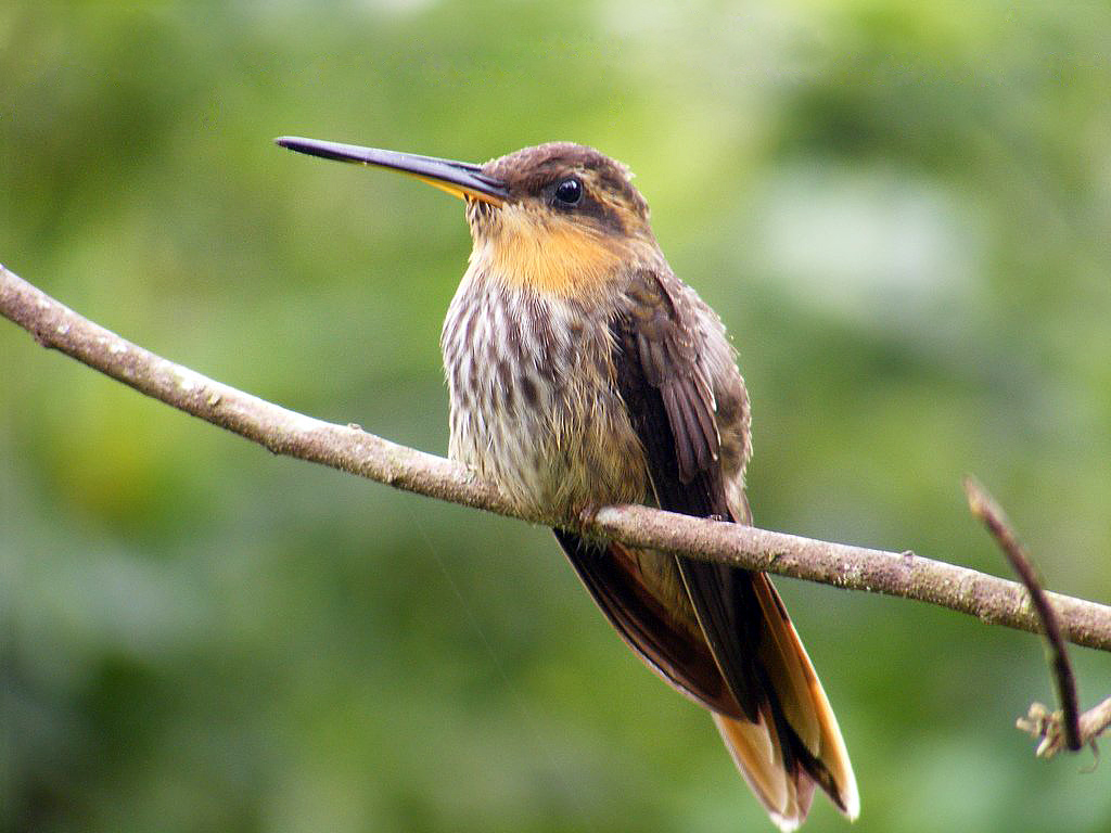 Ramphodon naevius from unknown location